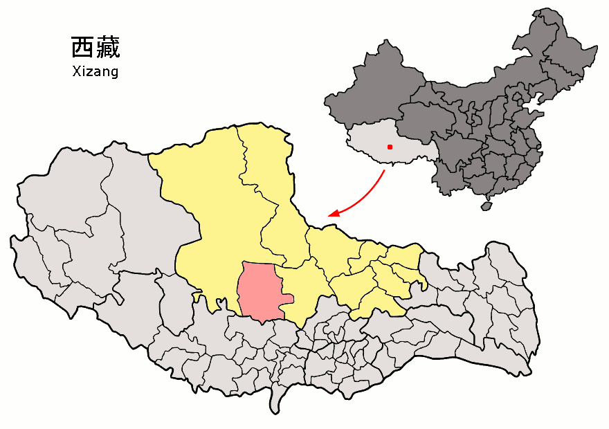 Location of Xainza County (pink) and Nagchu Prefecture (yellow) within Tibet (Xizang) autonomous region of China